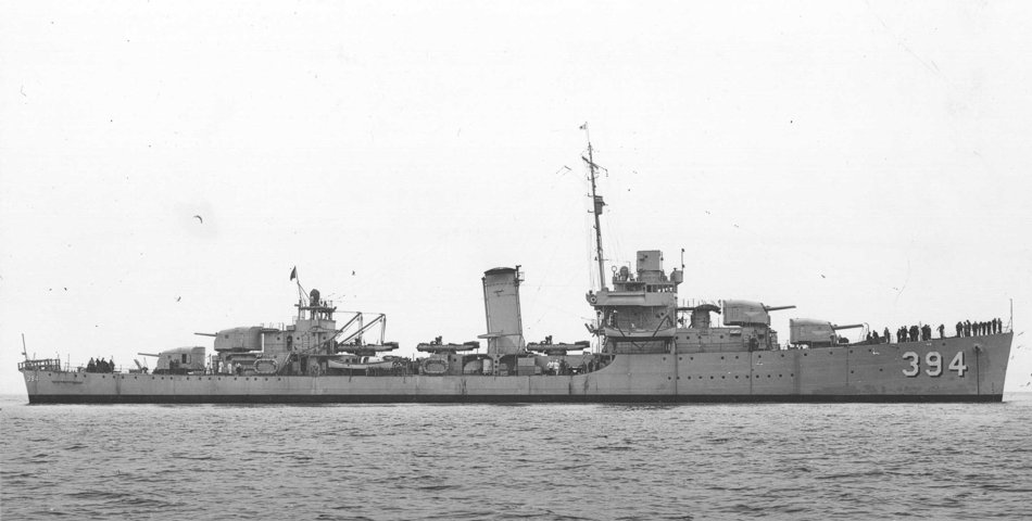 USS Sampson (DD-394) This image was edited by Destroyer History Foundation from NARA photo 80-G-7377 Source: Naval Historical Center.